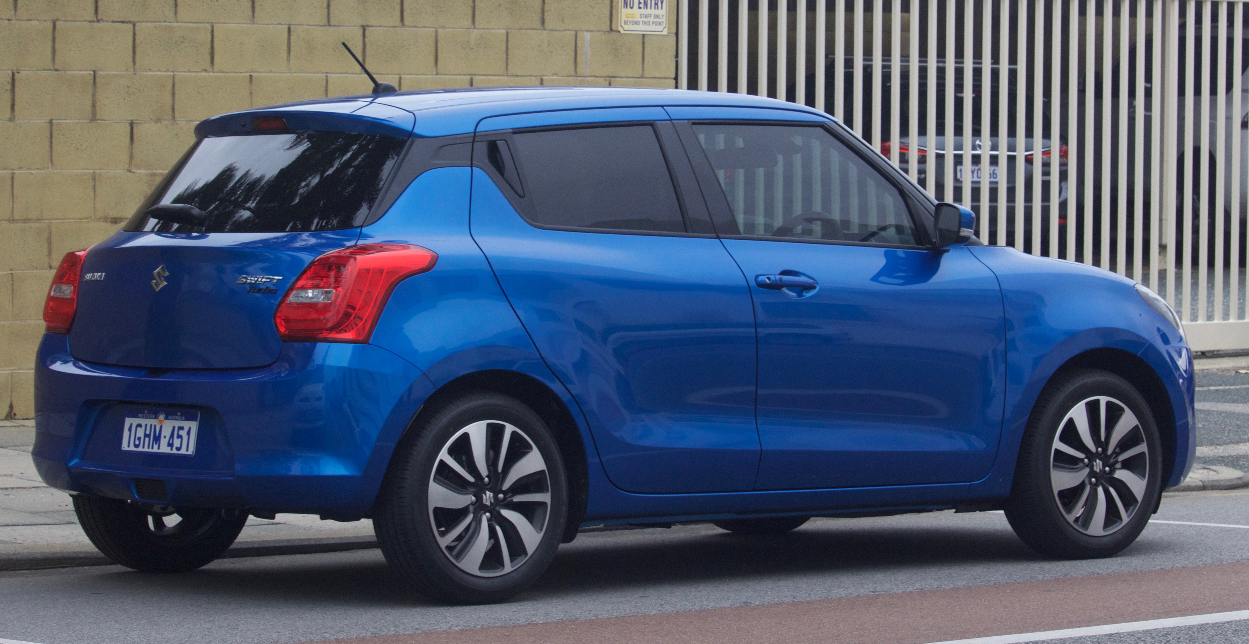 2017 Suzuki Swift (AZ) GLX Turbo 5-door hatchback. Photographed in Fremantle, Western Australia, Australia.